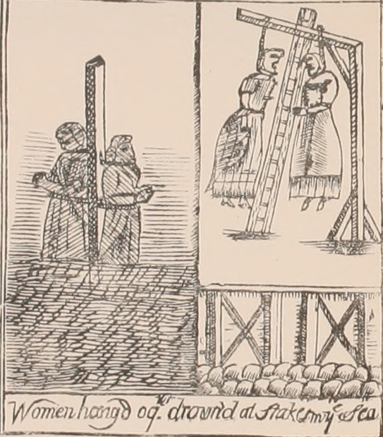 Women hangd drown'd at Stake